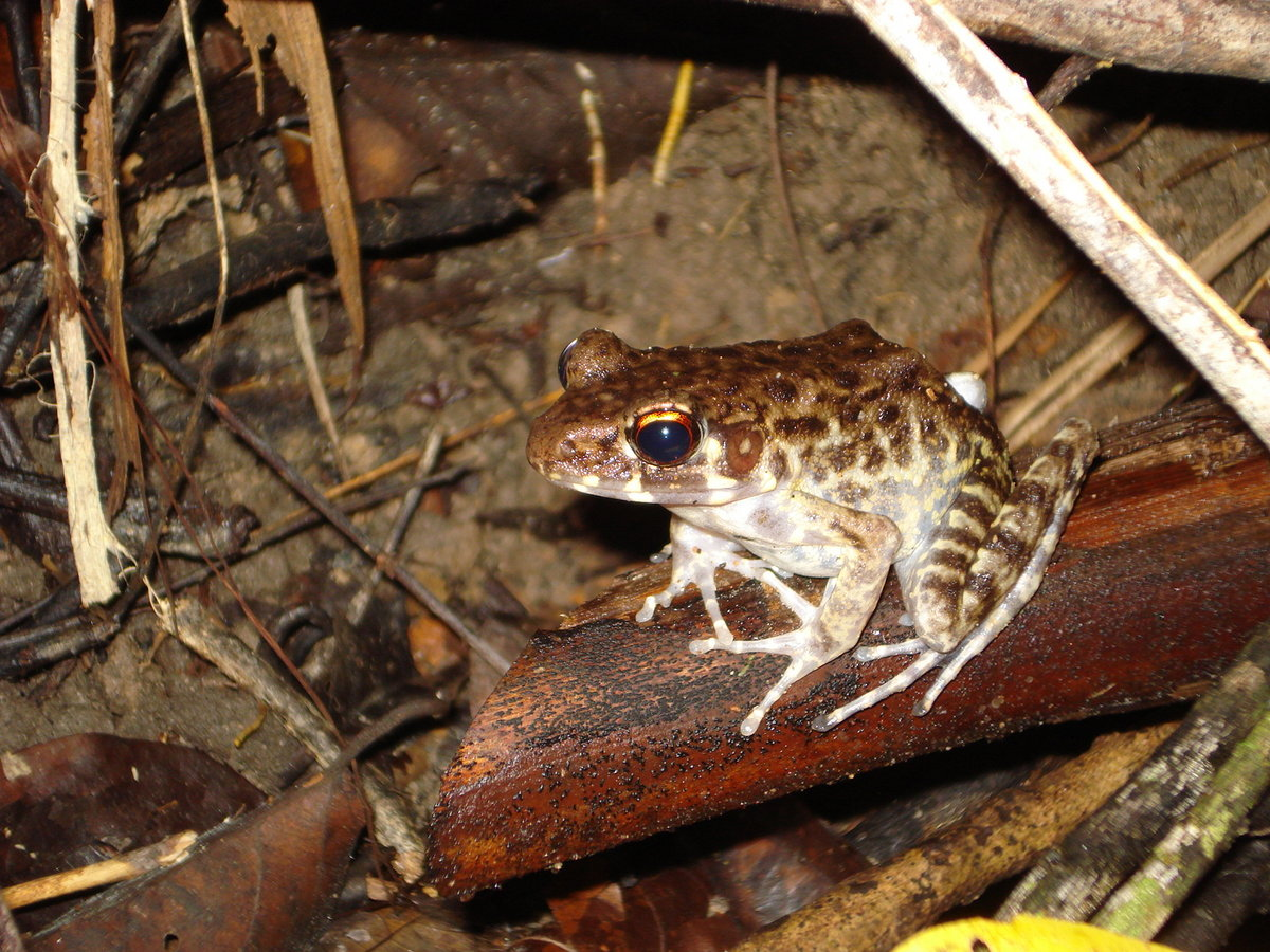 Pulchrana glandulosa from Taleban National Park, Satun Province, Southern Thailand